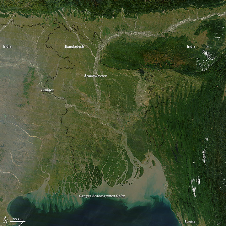 India Bangladesh Brahmaputra Ganges Ganges-Brahmaputra Delta Myanmar